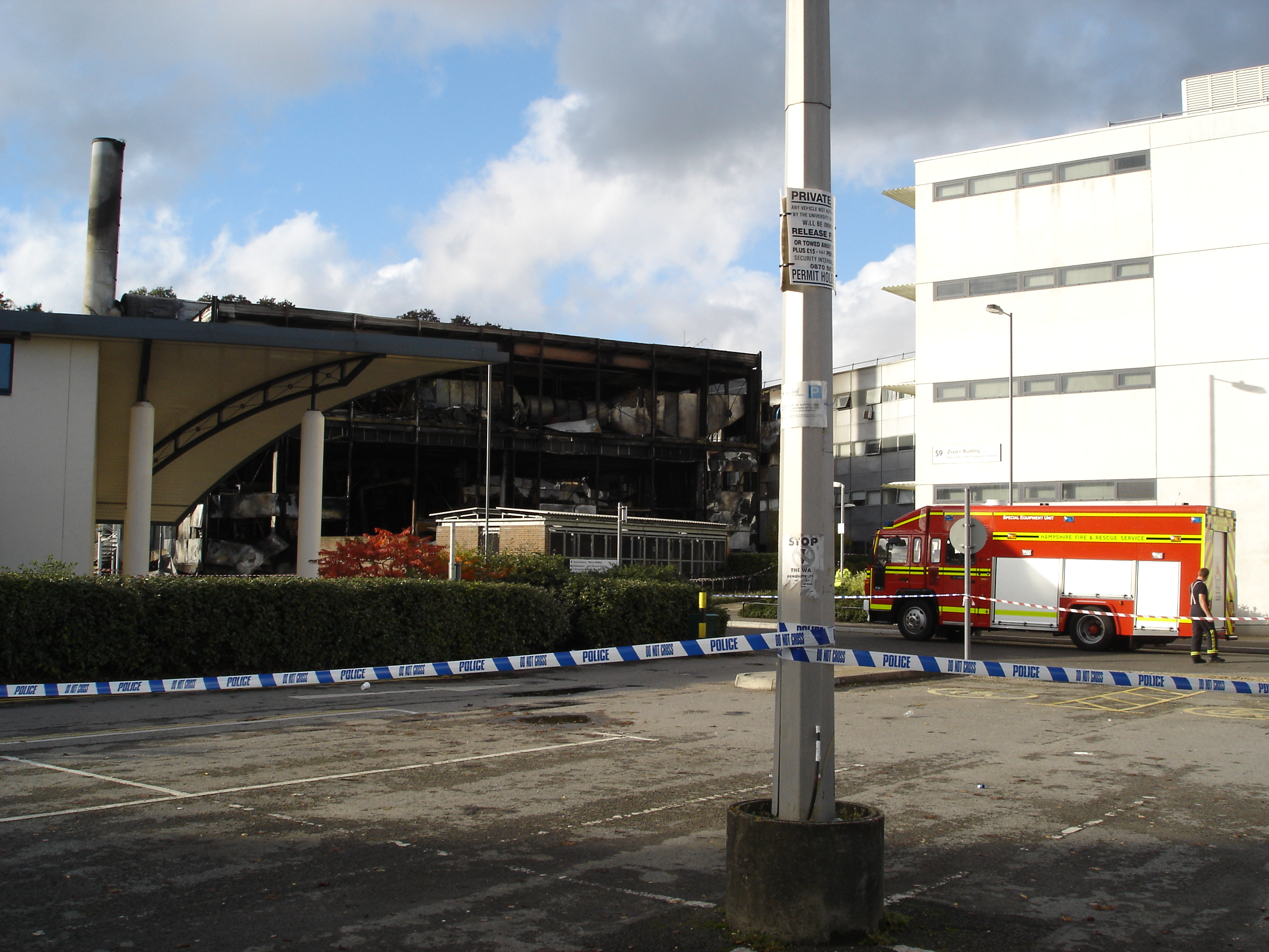 Fire damage done to the Mountbatten Building at the University of Southampton in Southampton, UK.